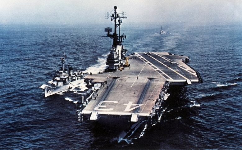 The U.S. Navy aircraft carrier USS Coral Sea (CVA-43) refueling the Fletcher-class destroyer USS Porterfield (DD-682), in 1960.